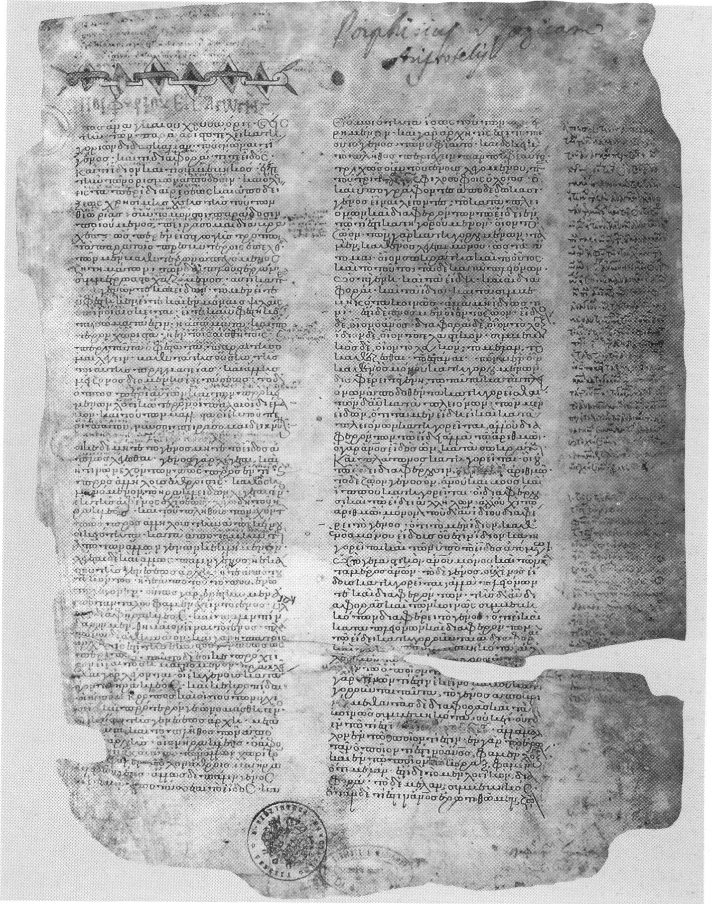 The beginning of Porphyry’s Isagoge in a medieval manuscript. Venice, Biblioteca Nazionale Marciana, Gr. IV 53, fol. 1r.